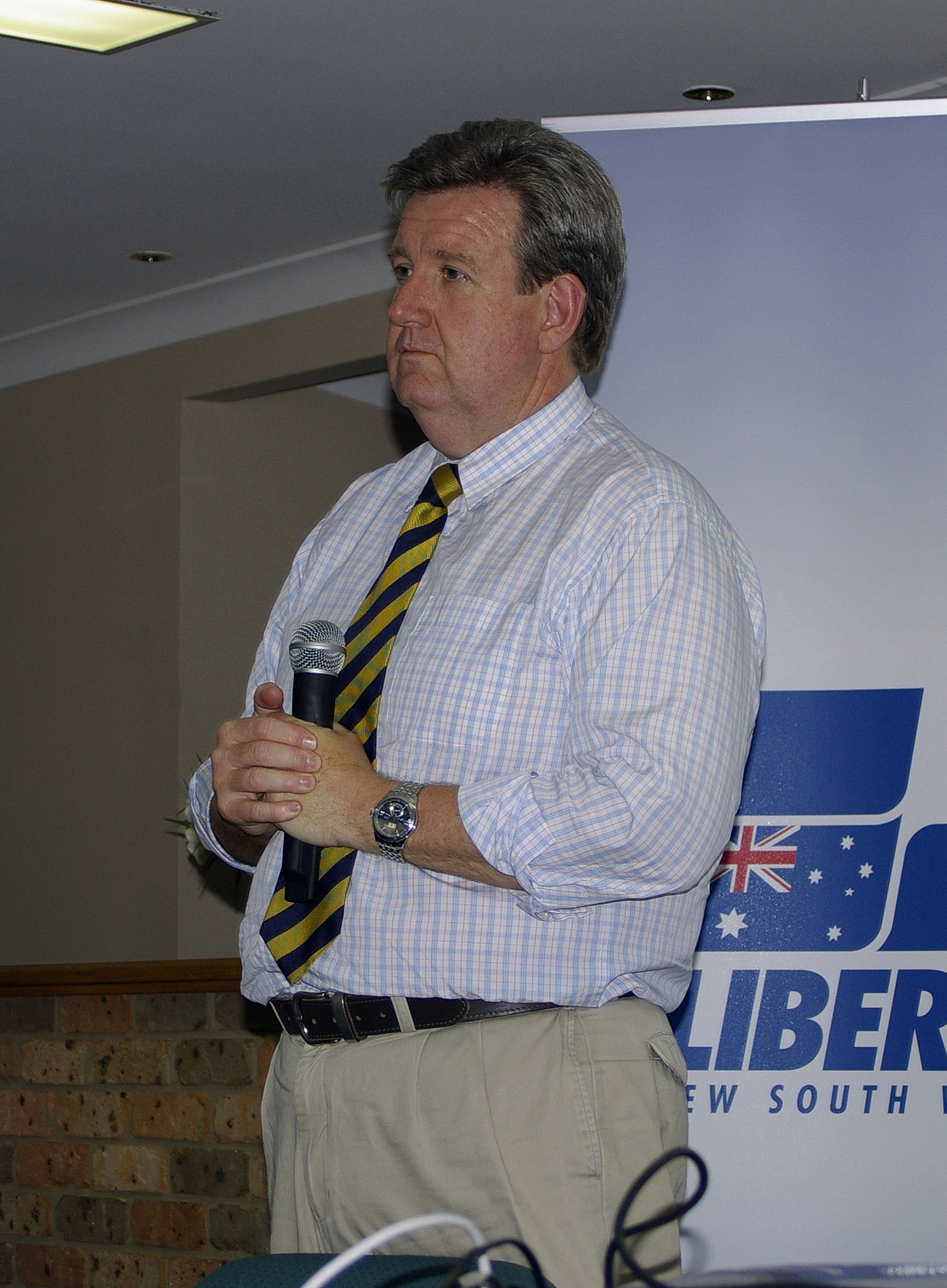 Barry O'Farrell at the NSW Country Liberals Annual Conference in Wagga Wagga